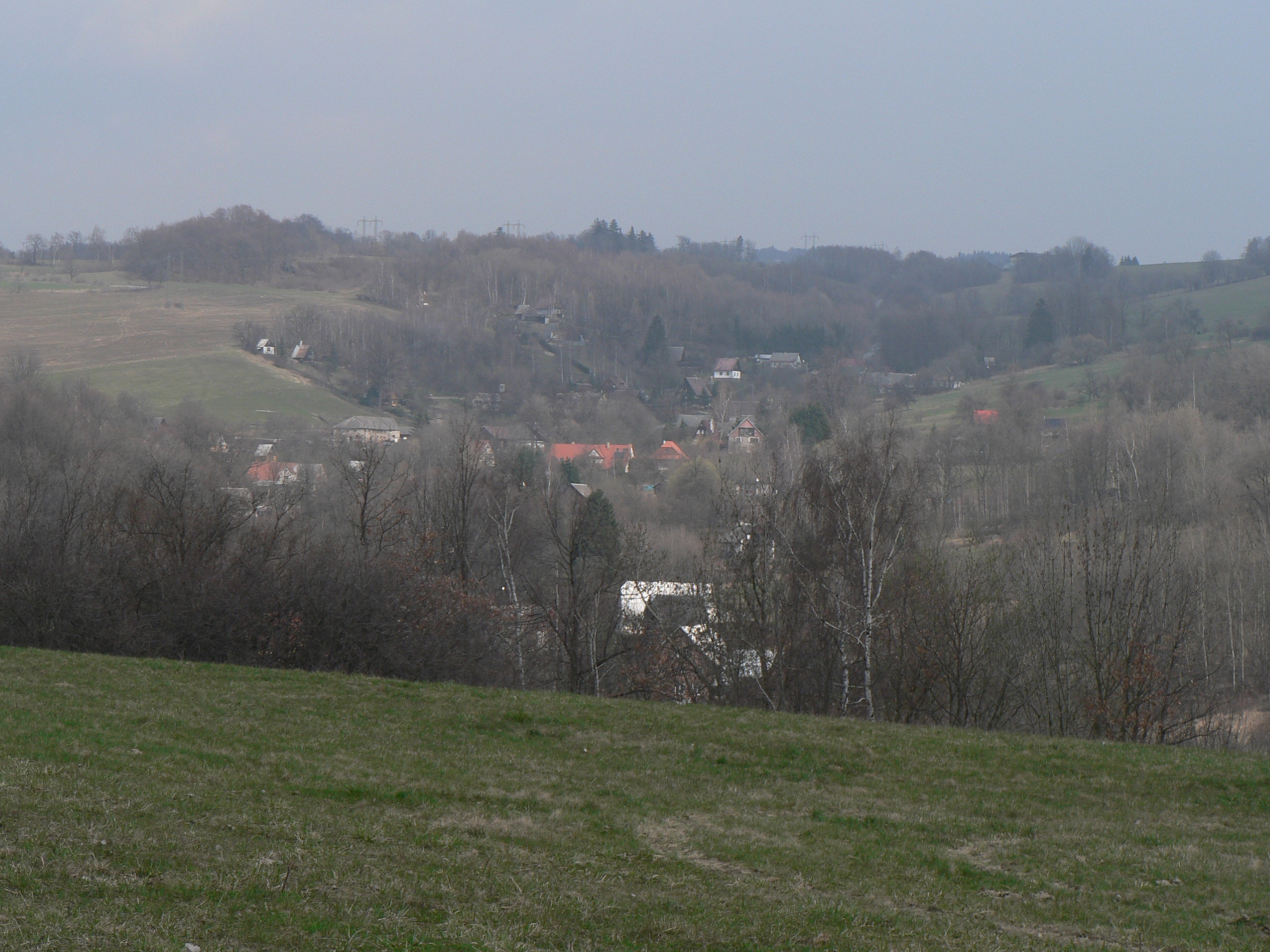 Mirotinek Village, Bruntal district, Czech republic